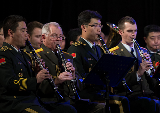 Military orchestras of the Western MD and the People’s Liberation Army of China took part in the joint concert within the closing ceremony of the Week of Chinese Culture in Saint Petersburg.